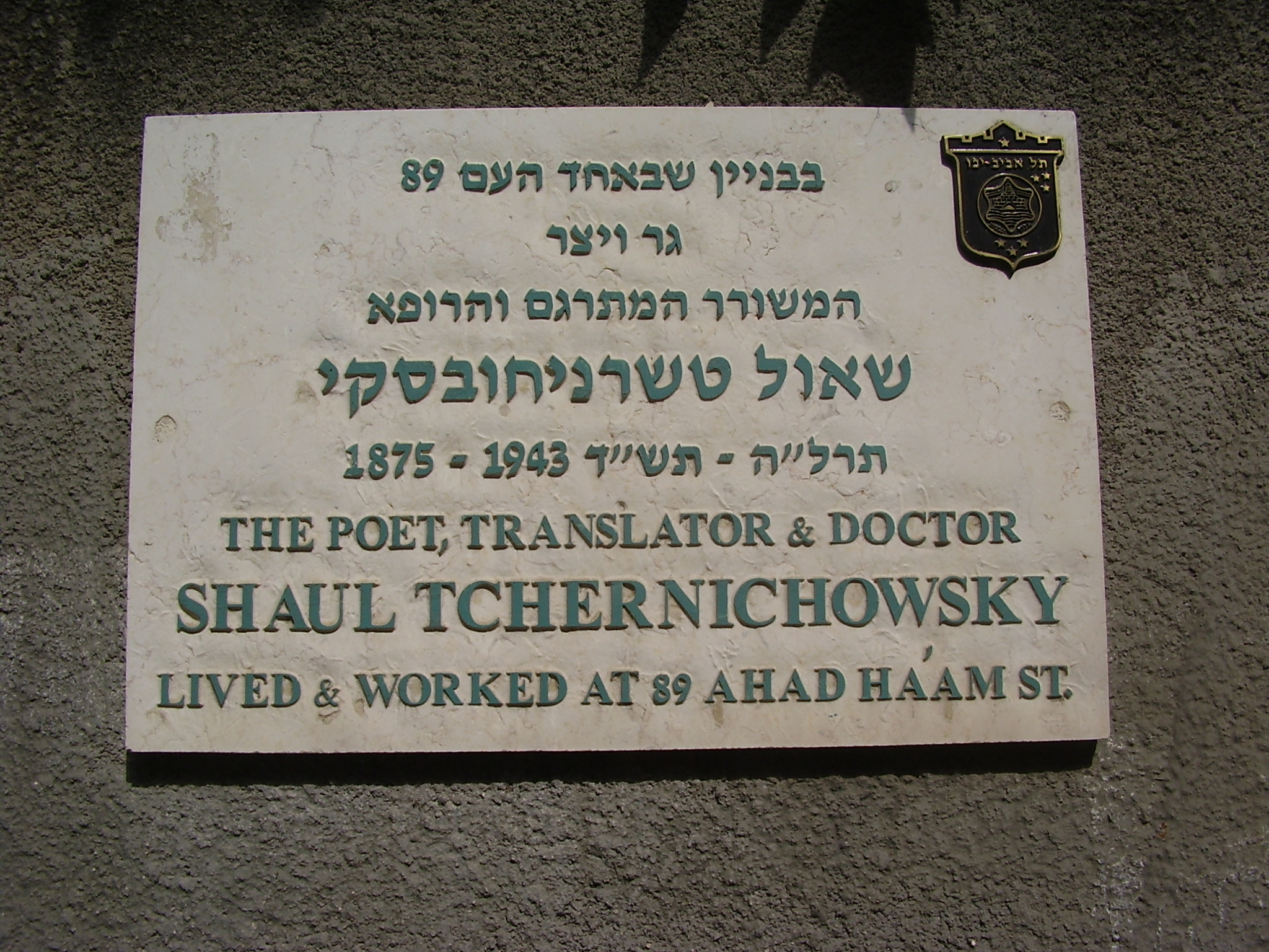 memorial plaque on the poet shaul tchernichovsky house in tel aviv